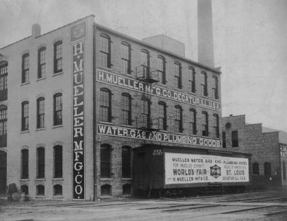 Three-story brick Mueller Mfg. Co. building in Decatur, Illinois, c. 1904